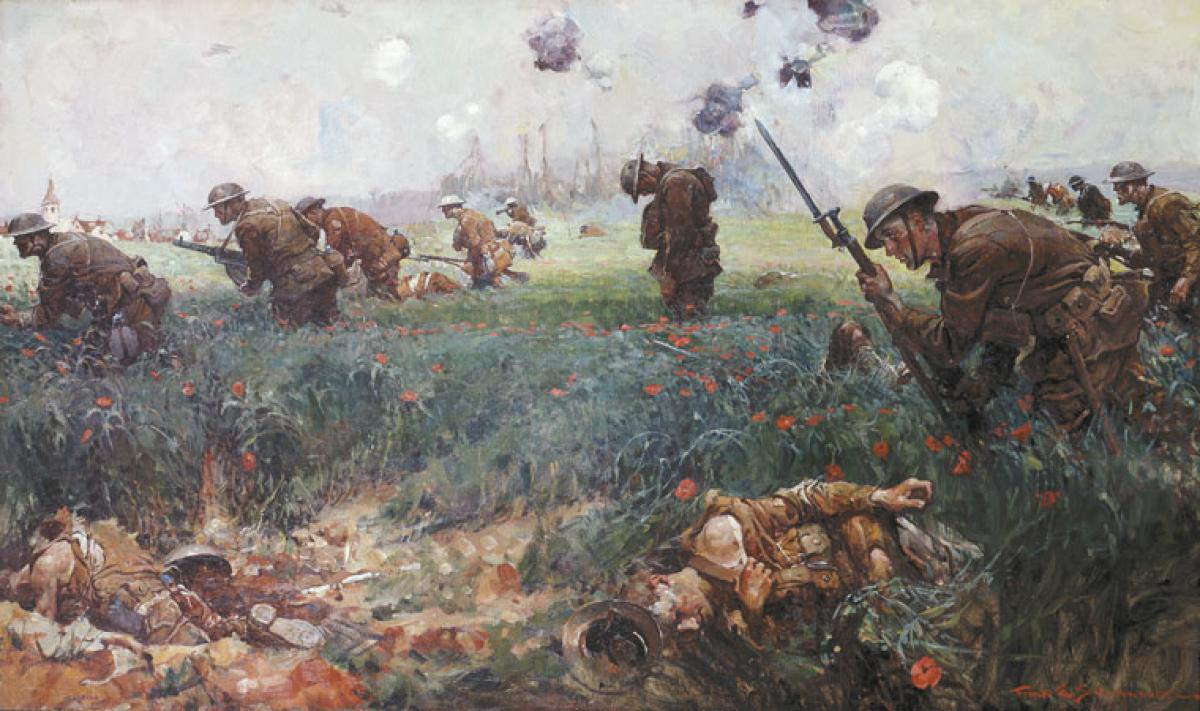 This battle scene was painted in 1919 by artist Frank Schoonover of the Battle of Belleau Wood